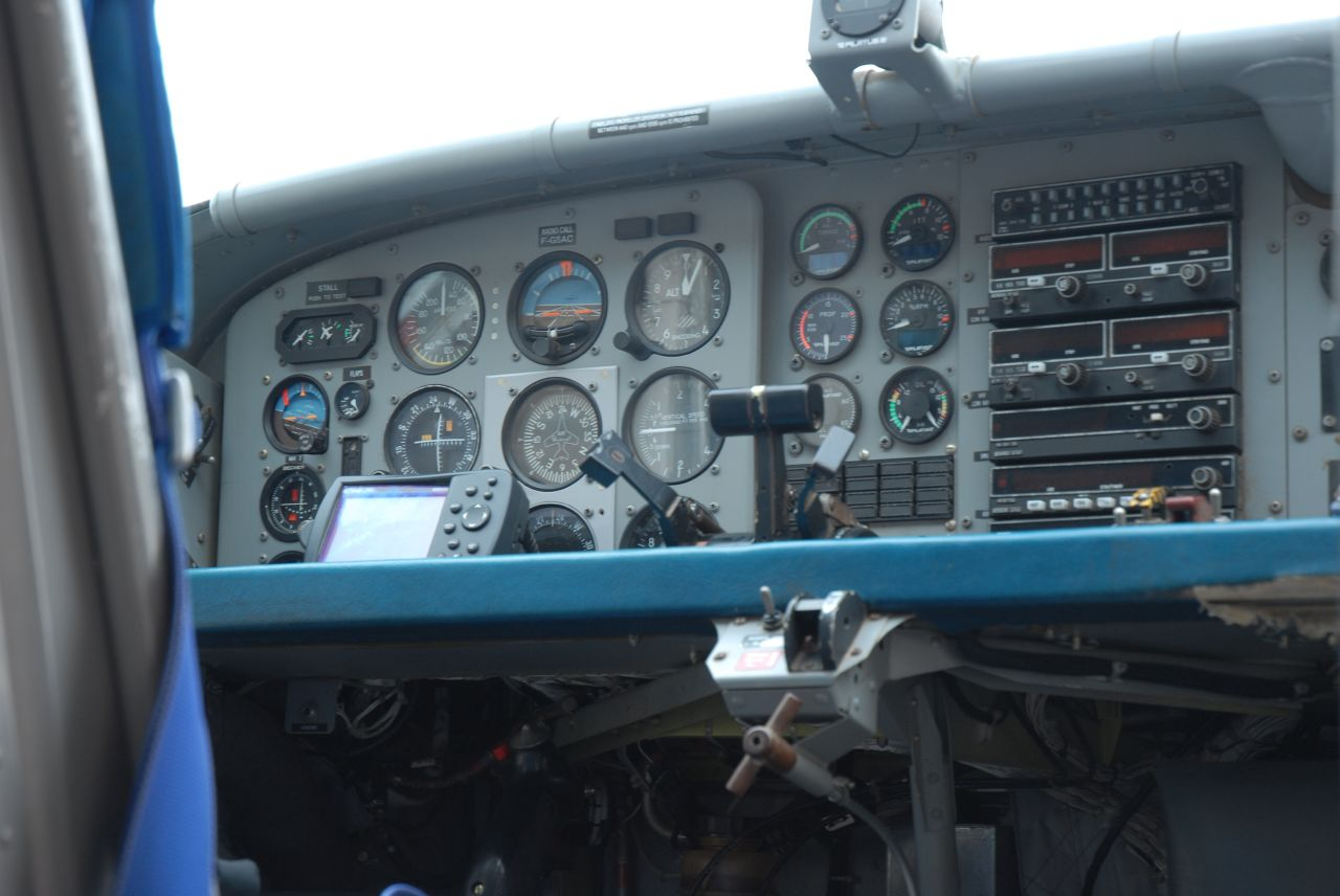 Cockpit of Pilatus PC-6 Turbo-Porter, Molinella, Emilia Romagna, Italia.